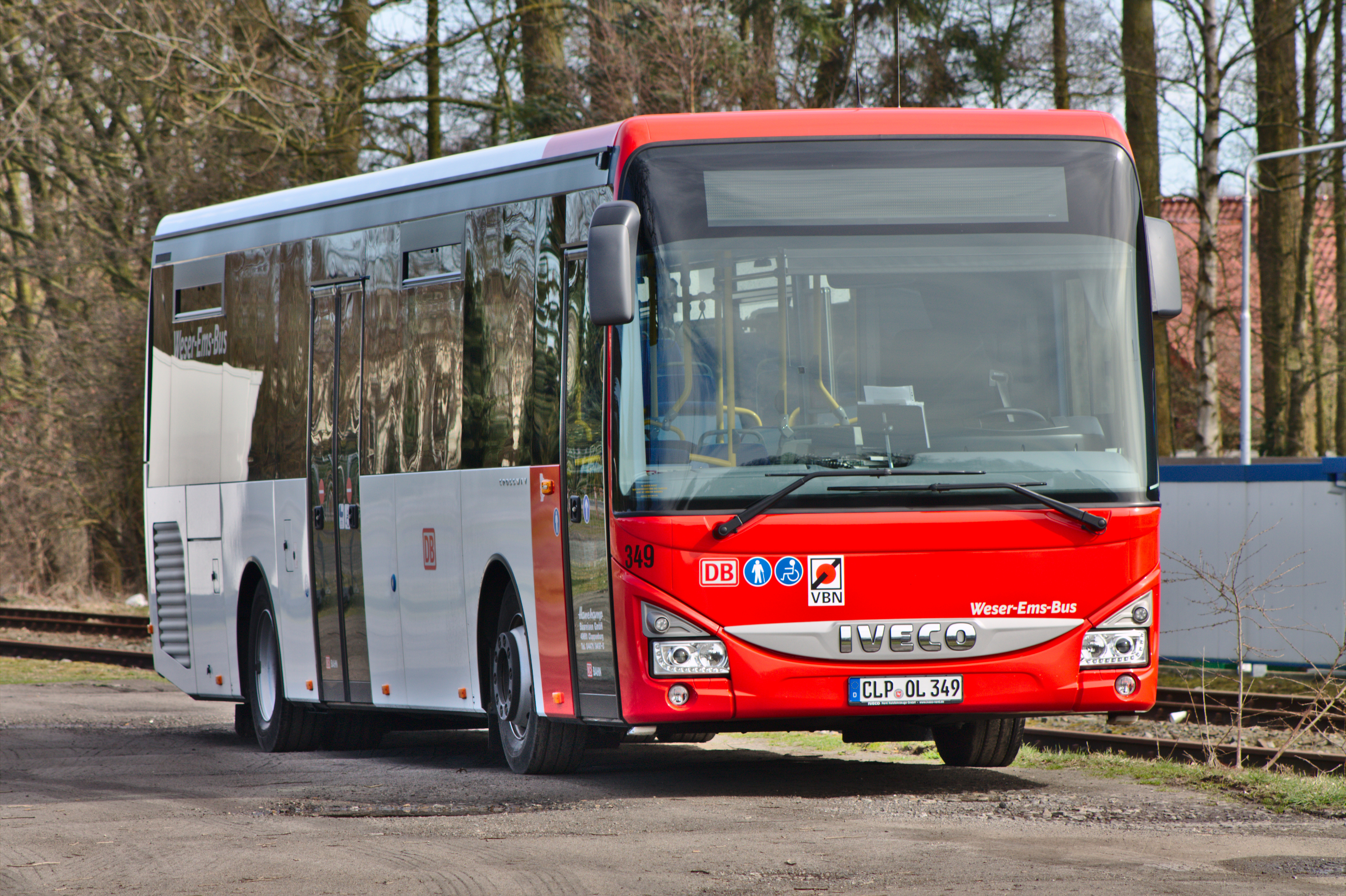 Bus #349 of Weser-Ems-Bus, an Iveco Crossway LE 12, is standing in the bus terminal of Barßel, Lower Saxony, Germany.